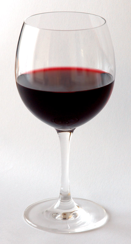 This image shows a red wine glass.